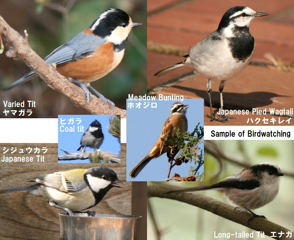 sample of Birdwatching